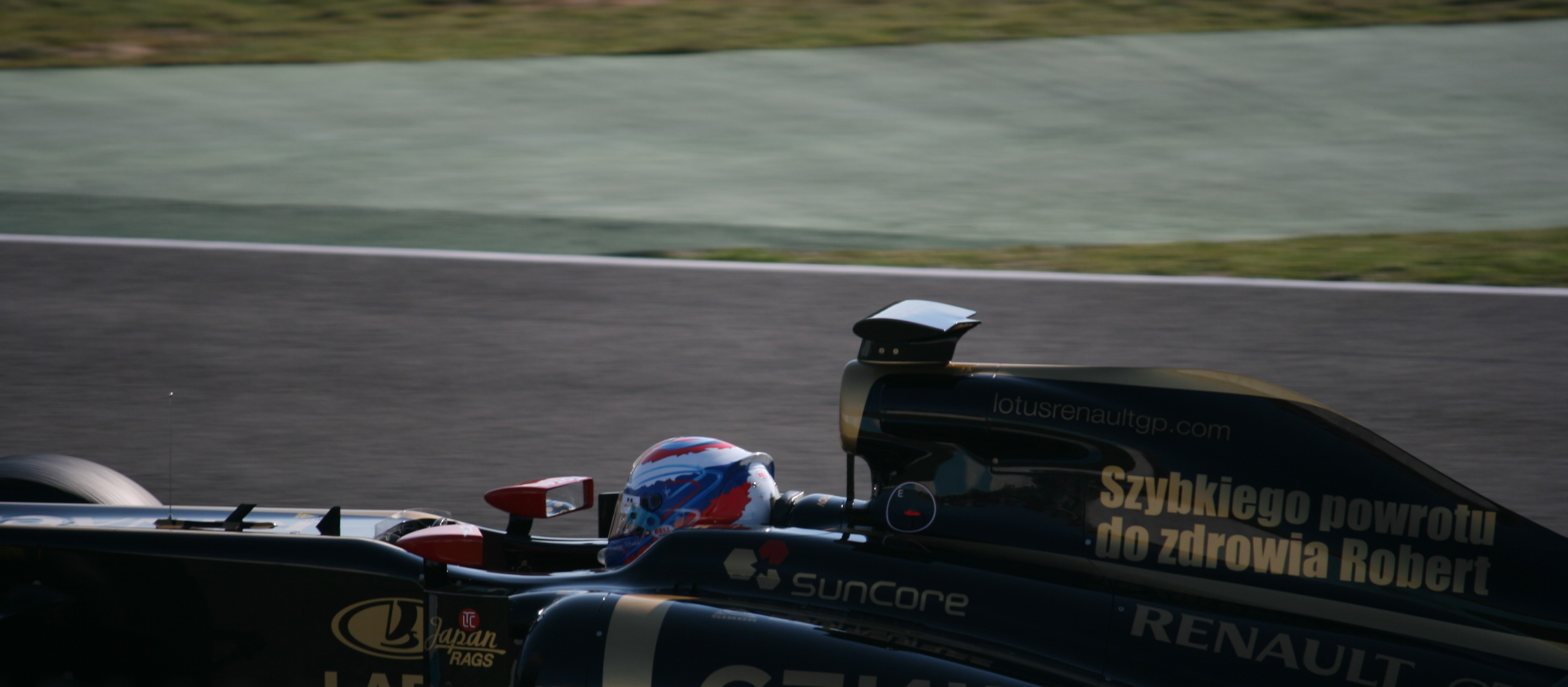 Vitaly Petrov testing for Renault F1 at Jerez.